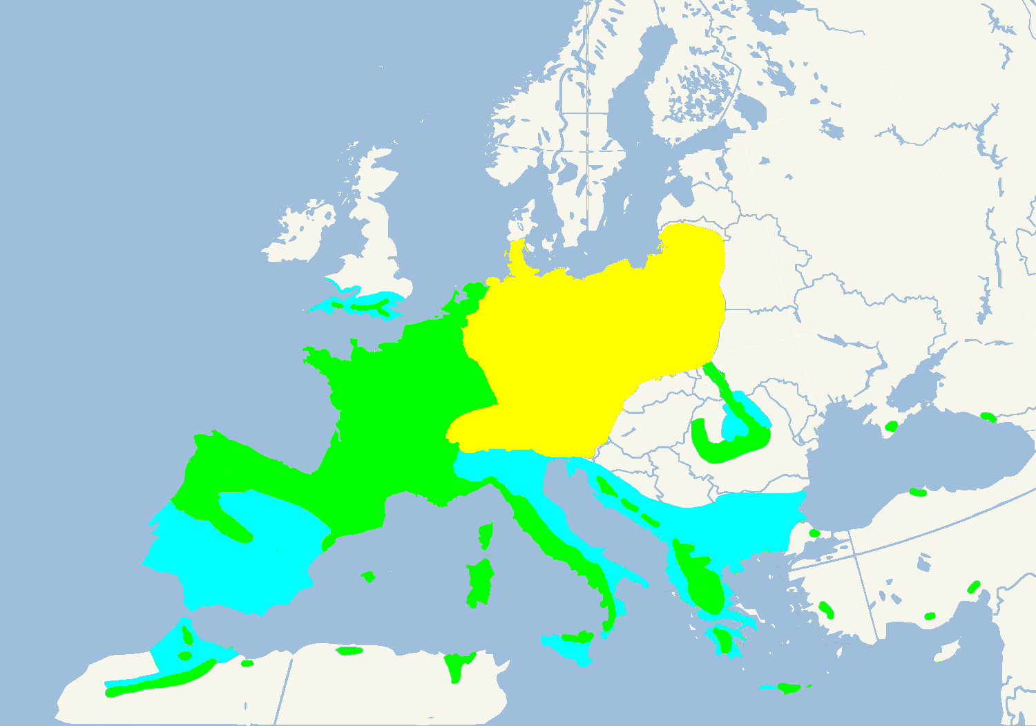 Approximate range map for the Common Firecrest (Regulus ignicapilla) Colour key: Yellow - Breeding summer visitor Green - Resident year-round Blue - Winter visitor.